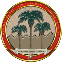 Logo for the Marine Corps Air Ground Combat Center